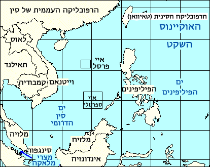 Map of the South China Sea. From the United States Department of Energy